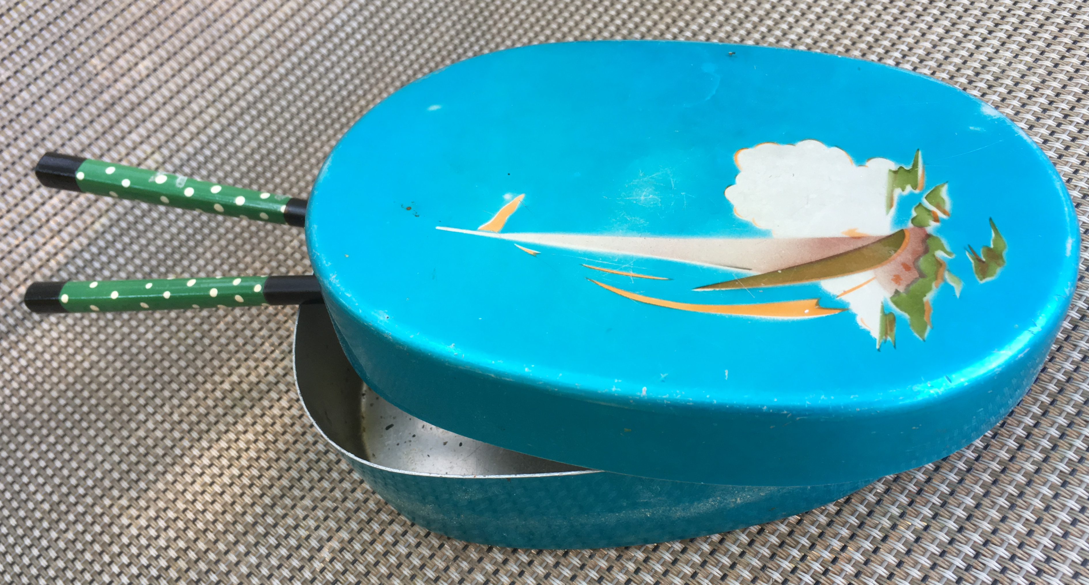 This is an aluminum bento box from 1961. The lid fits very closely. The inside contained a smaller container for condiments.